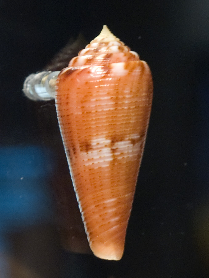 43857 Conus granulatus (Glory-of-the-Atlantic) Pompano Beach, Florida HMNS 43847 Wikipedia Loves Art at the Houston Museum of Natural Science This photo of item # 43857 at the Houston Museum of Natural Science was contributed under the team name "Assignment_Houston_One" as part of the Wikipedia Loves Art project in February 2009. Houston Museum of Natural Science The original photograph on Flickr was taken by skarsol—please add a comment to the original Flickr page whenever a use has been made on Wikipedia or another project. Project galleries on Flickr: this institution, this team